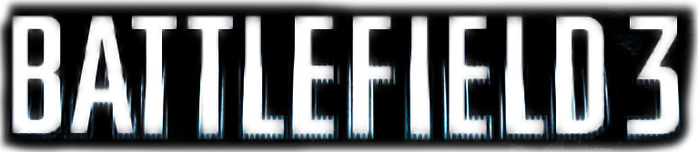 Battlefield 3 logo